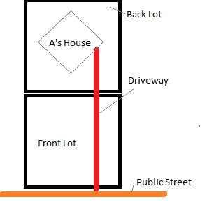 A diagram showing a simple example of easement by prior use. There are two plots, A (the back lot) and B (the front lot), which were once a single plot and now have been severed. A forgot to obtain an easement to use the driveway on plot B to access the public street, and now needs an easement by prior use to obtain a non-revocable right to egress.